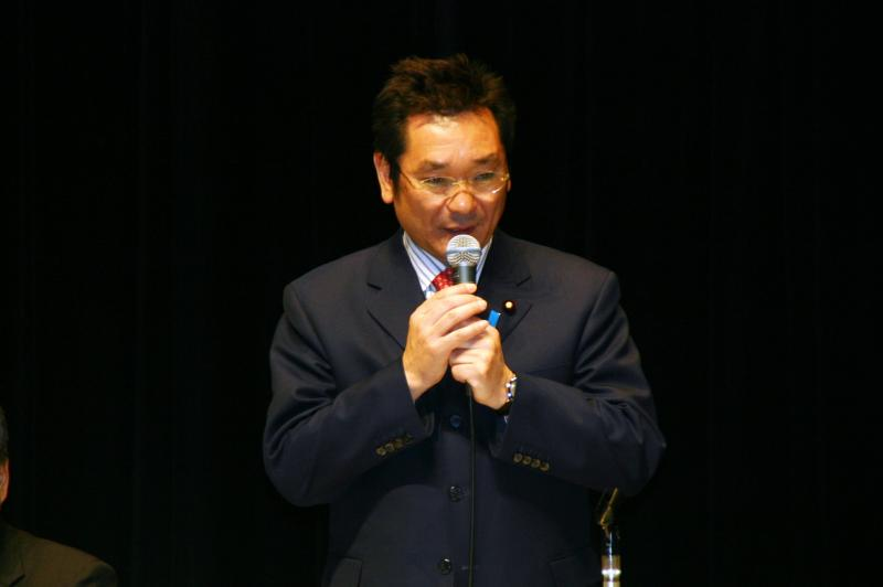 Kenko Matsuki, Parliamentary Secretary of Agriculture, Forestry and Fisheries, attended the briefing session at the Kyosai Building in Sapporo City, Hokkaidō on January 14, 2011. (For terms of use, see 北海道農政事務所/リンクについて・著作権.)